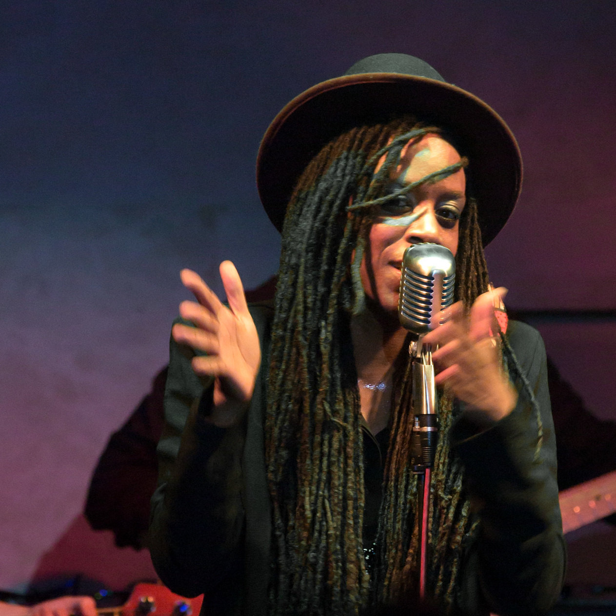 Akua Naru & The Digflo Band: "The Miner's Canary Tour", concert at Cafe Leopold at MuseumsQuartier in Vienna, Austria.